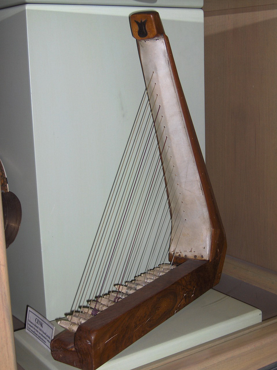 Çenk, ancient upperchested harp; Mevlâna mausoleum; Konya, Turkey